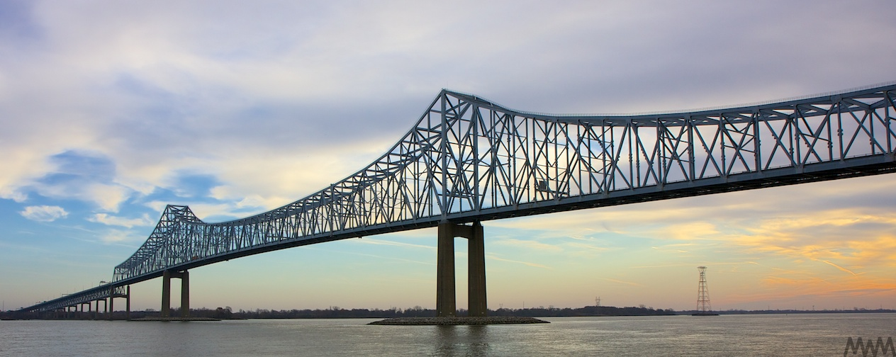 Commodore Barry Bridge, Rte 322 spanning the Delaware River between Chester, PA and Bridgeport, NJ. At a total length of 13,912 ft, it is one of the longest cantilever bridges in the world (per Wikipedia, longest in the US) 11/23/12